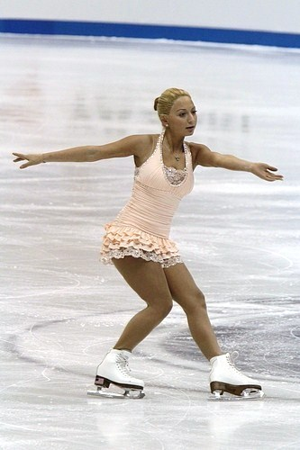 Elene Gedevanishvili at the 2010 NHK Trophy.